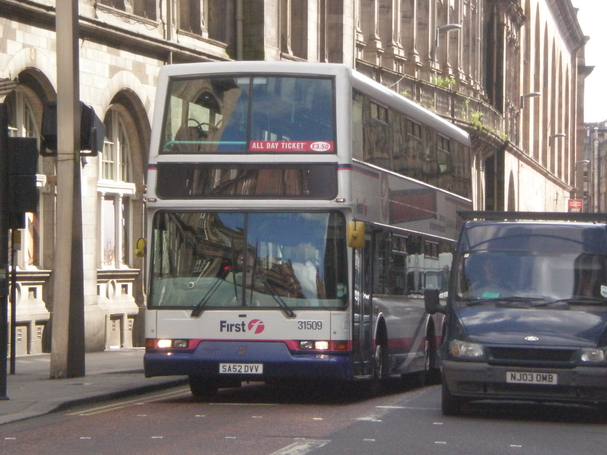 First Glasgow's SA52DVV is seen on Hope St in the city working towards Mountblow to start a service. It is an example of the East Lancs Nordic bodywork on a Volvo B7L chassis.